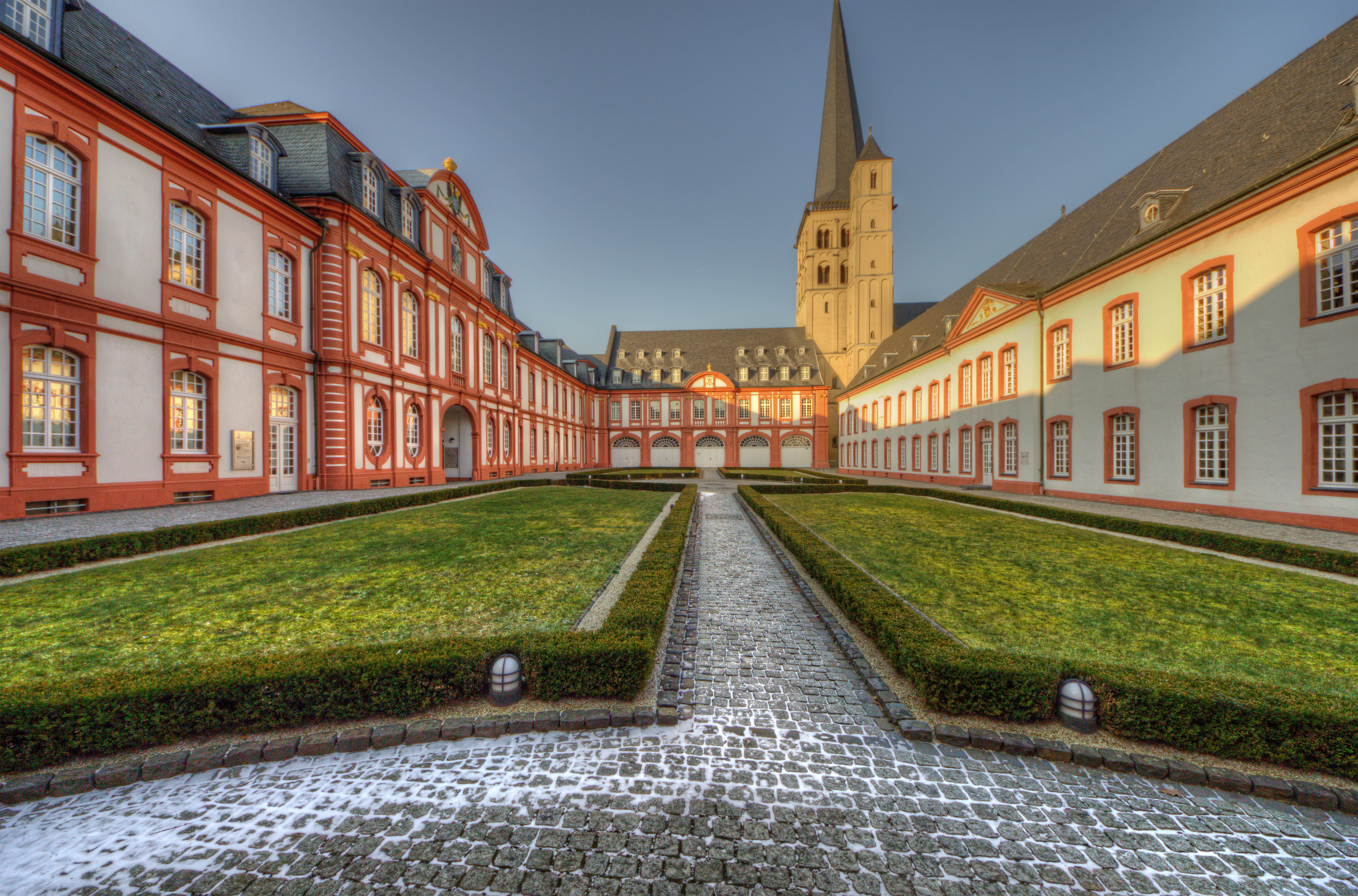 The Brauweiler Abbey in Pulheim, North Rhine-Westphalia